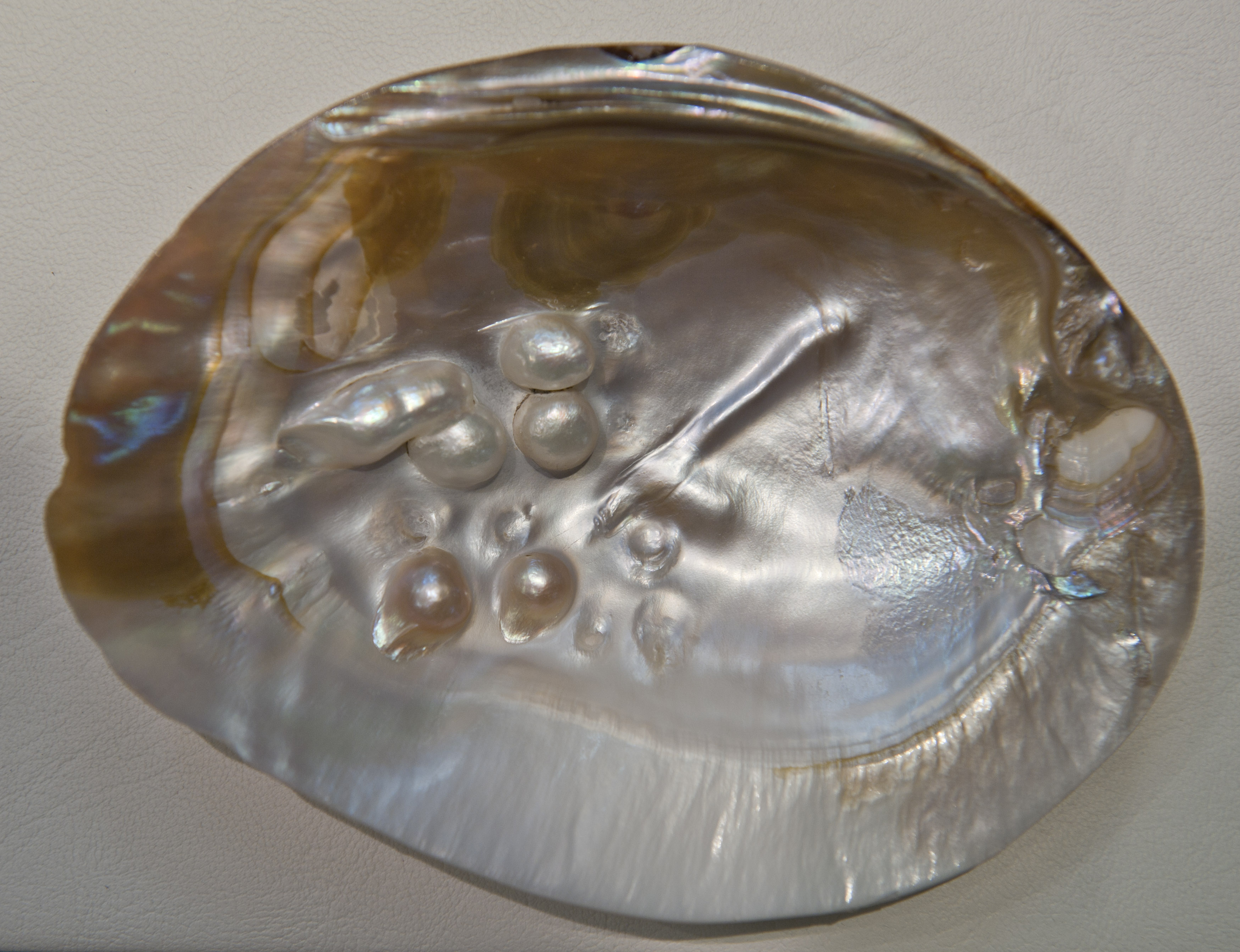 Mother of pearl with accrued pearls